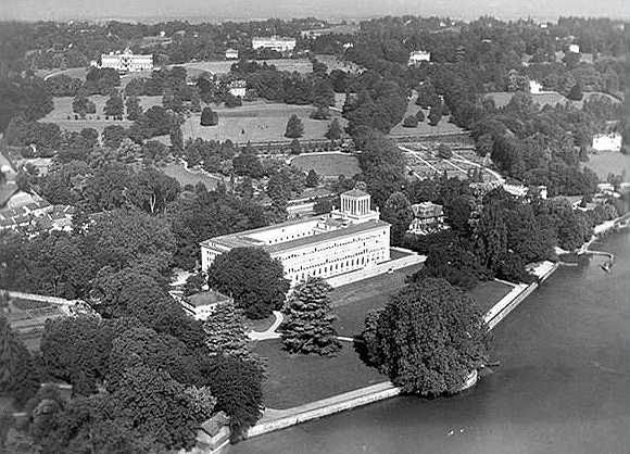 Aerial view of the Centre William Rappard after its opening in 1926. Villa Bloch and Villa Rappard are visible at the left and the right of the photograph, respectively. The Botanical Gardens are behind the building, as well as the Ariana park, where the League of Nations built the Palais des Nations between 1929 and 1938.